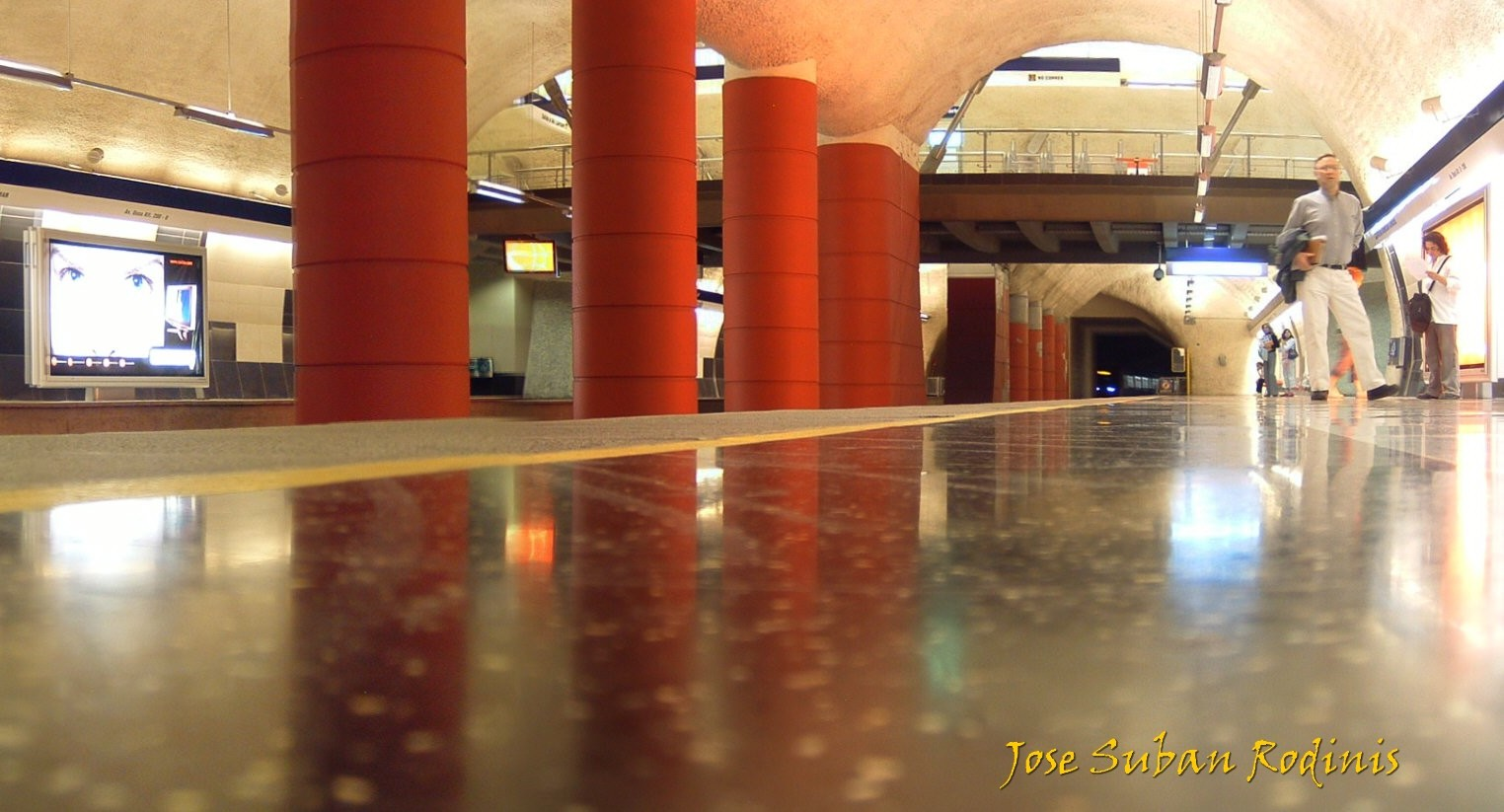 Plaza Egaña station on line 4 of the Santiago, Chile metro